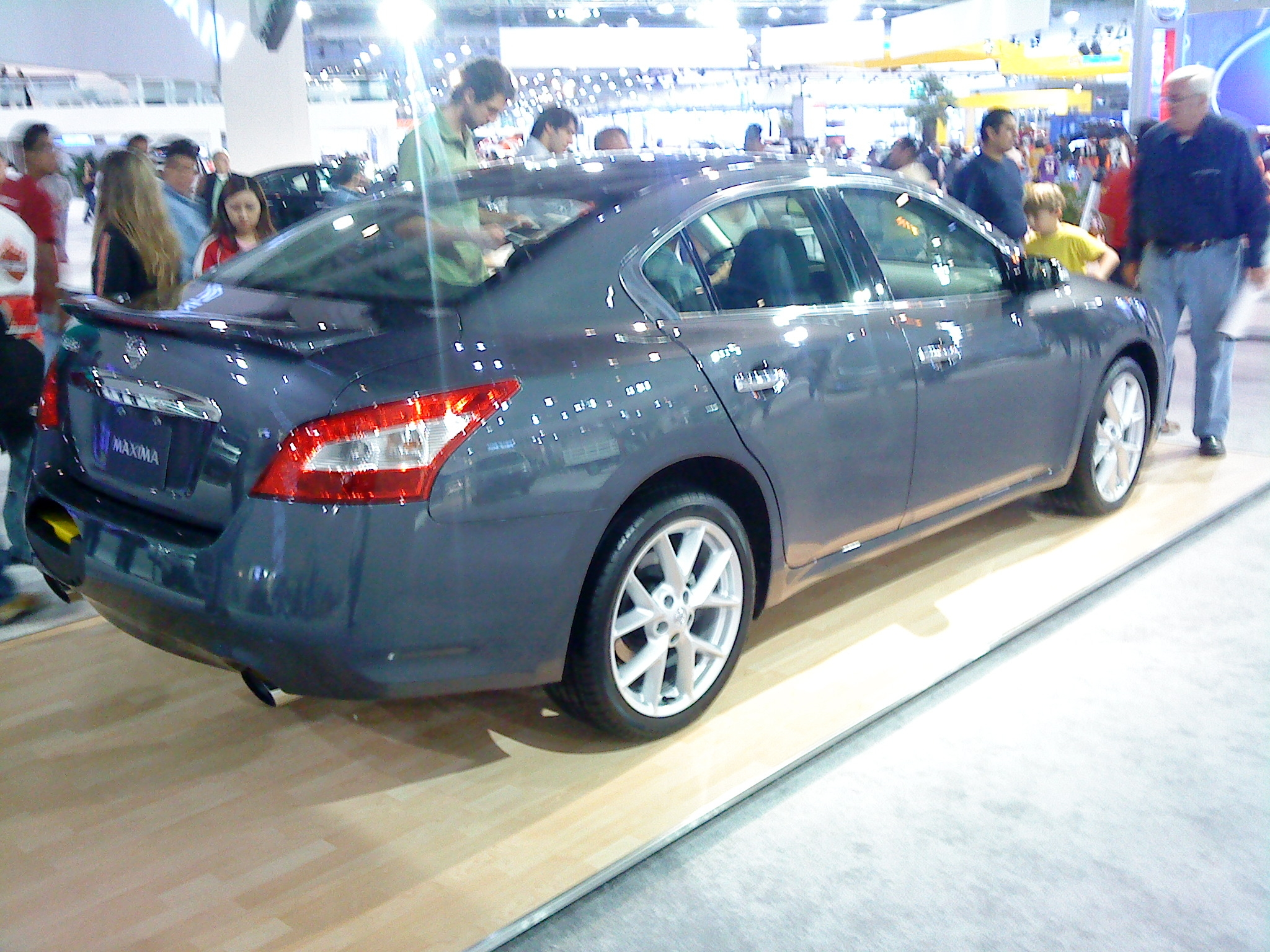 2009 Nissan Maxima at the 2008 SIAM.